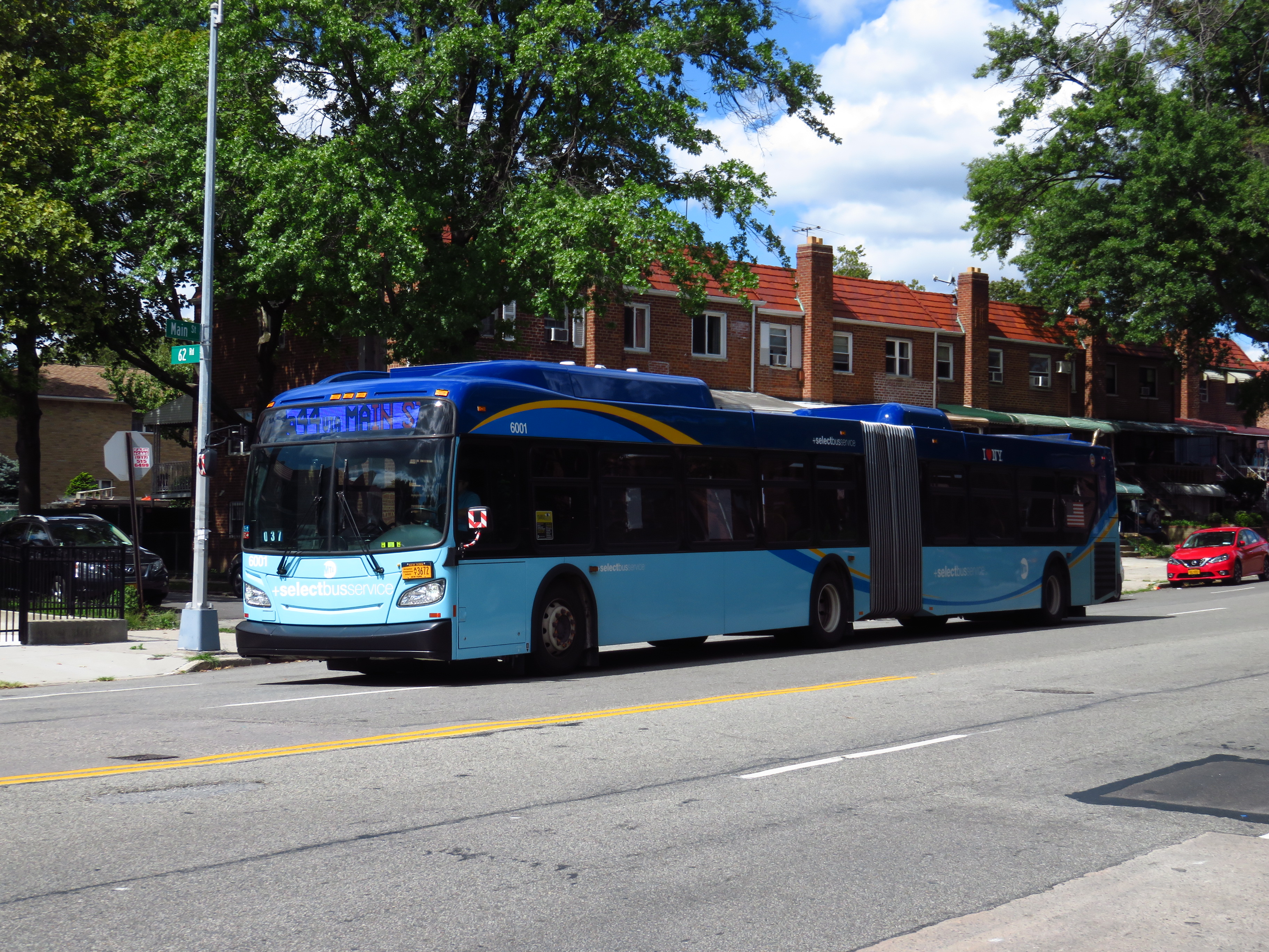 NYCT Bus New Flyer XD60 #6001 operates on the Q44 Select Bus Service bus route to Jamaica, Queens, seen at 62nd Road and Main Street in Flushing near John Bowne High School.